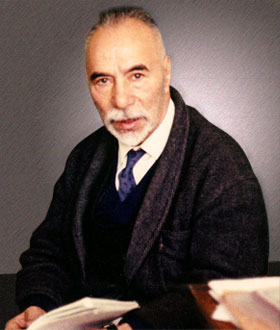 Ostad Elahi in 1966